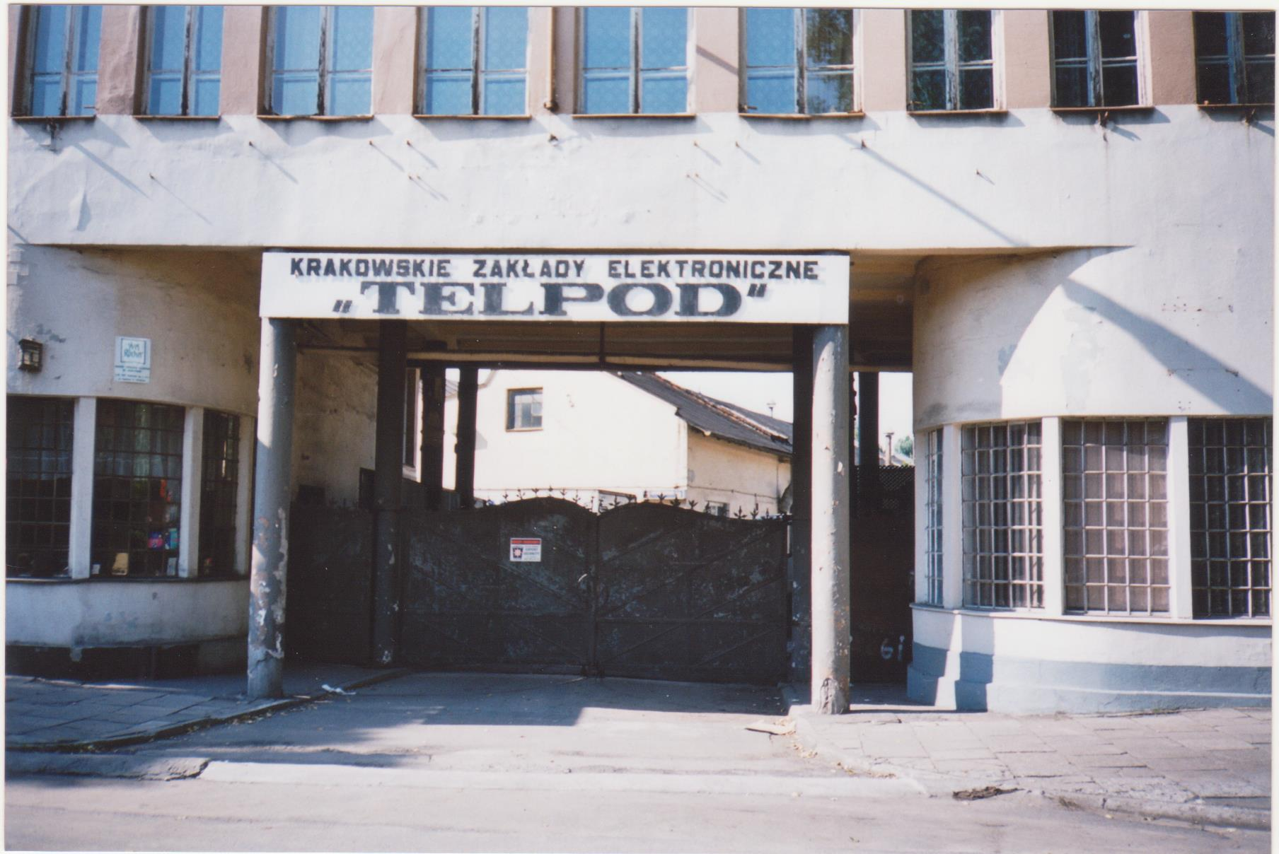 entrance to Oskar Schindler's factory at Krakow, 2000